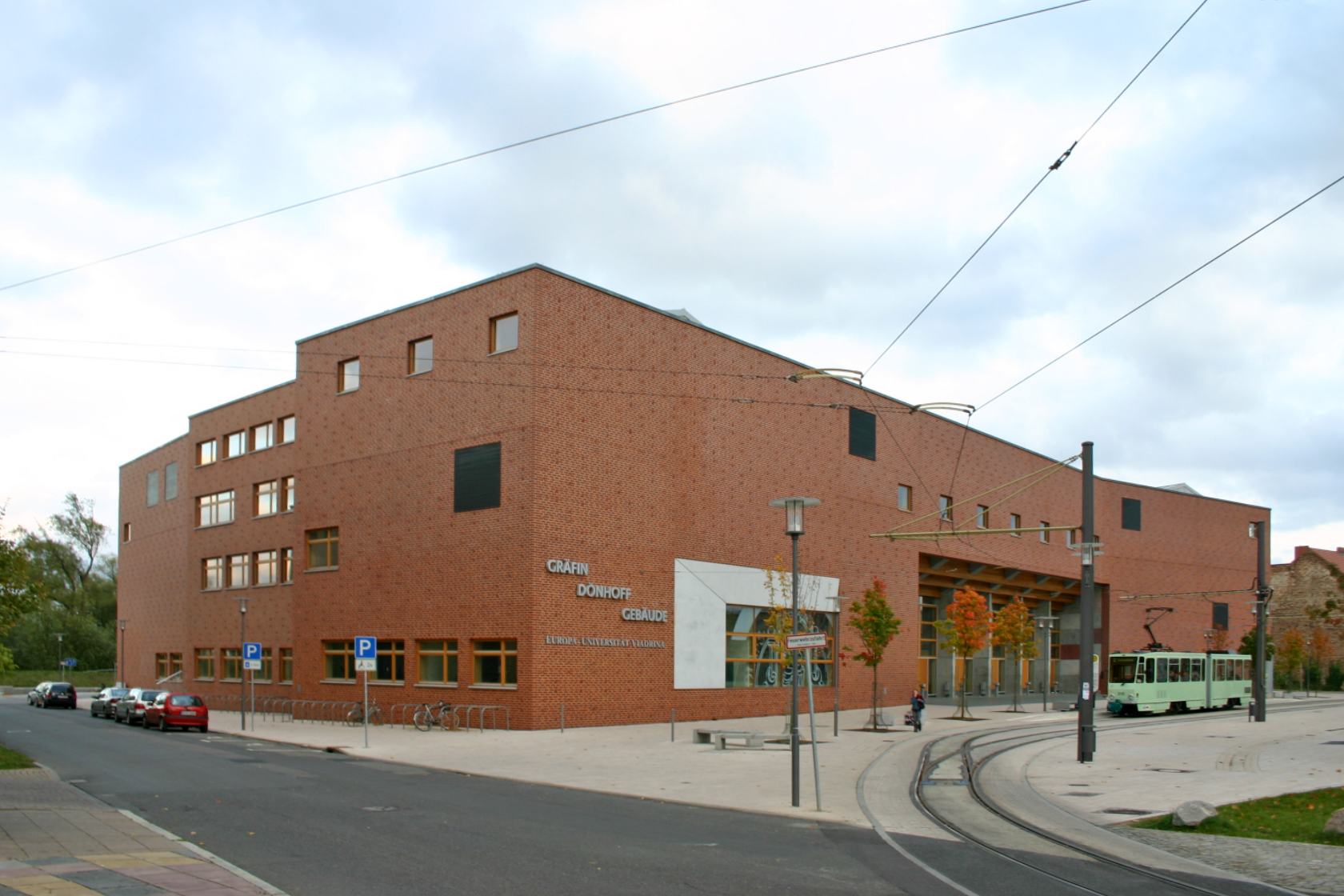 Building of the European University Viadrina Frankfurt (Oder) in Frankfurt (Oder), Brandenburg, Deutschland, named after Marion Gräfin Dönhoff.